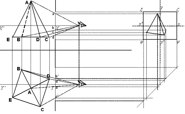 Monge's method of construction for the linear perspective of a tetrahedron